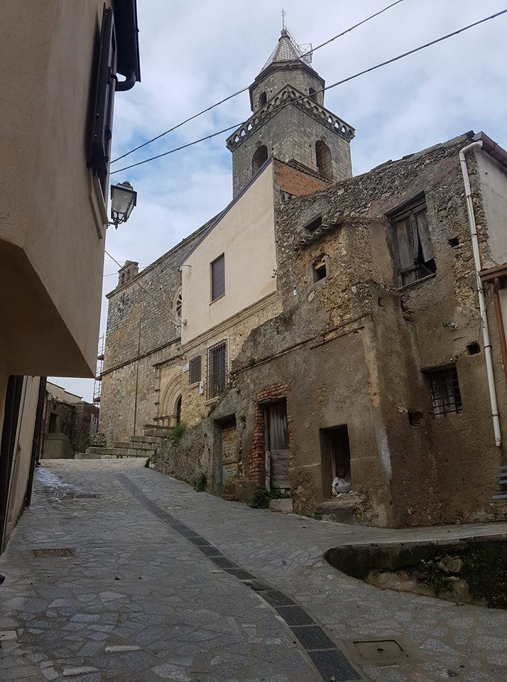 a view of Cropani